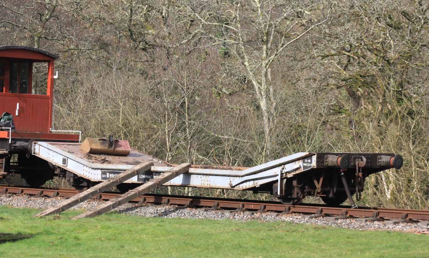 British Rail 'Lowmac WP' machinery wagon B904546 at Bodmin Parkway where it has been used to bring engineer's equipment to replace some trackwork.